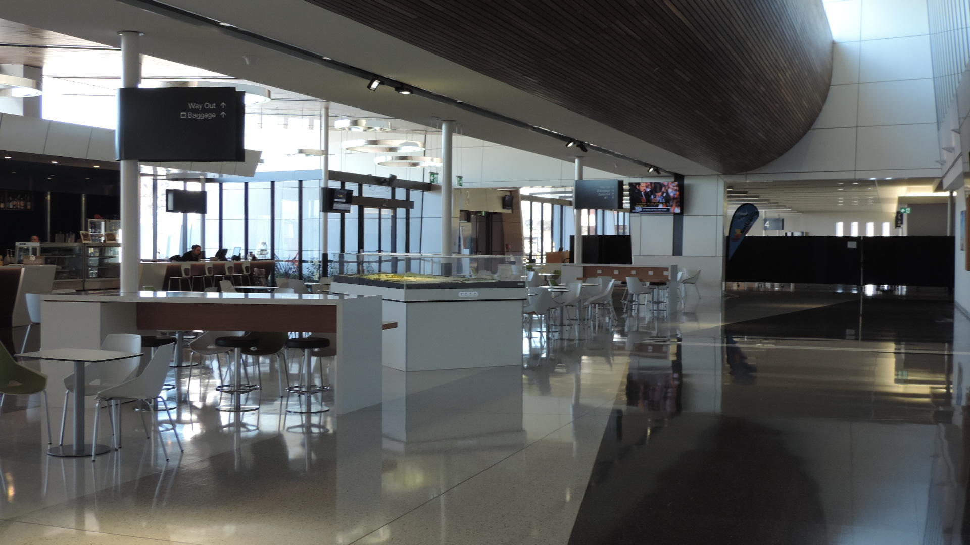 Cafe inside the passenger terminal, Brisbane West Wellcamp Airport, 2016